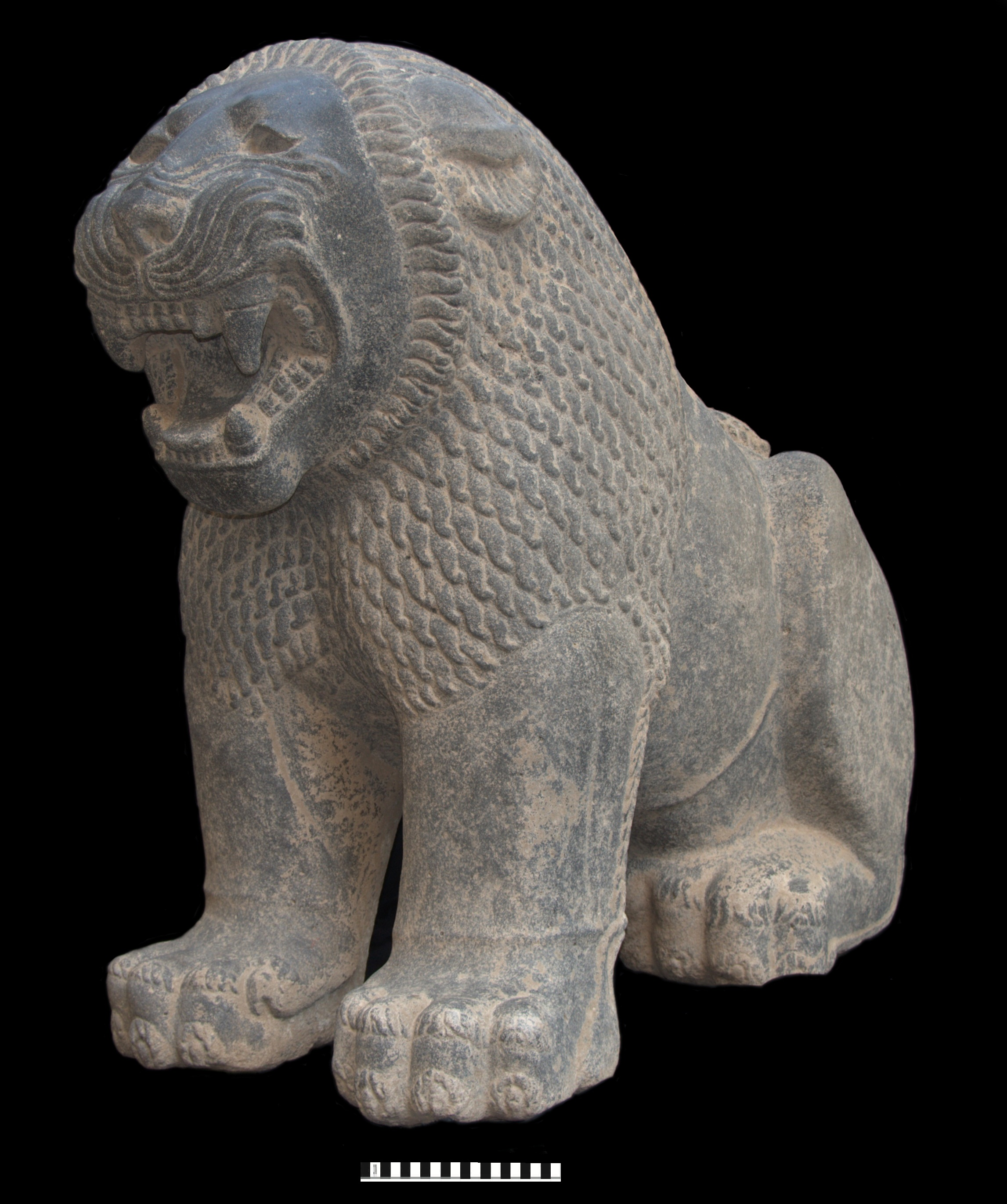 Stone lion sculpture from Tell Tayinat